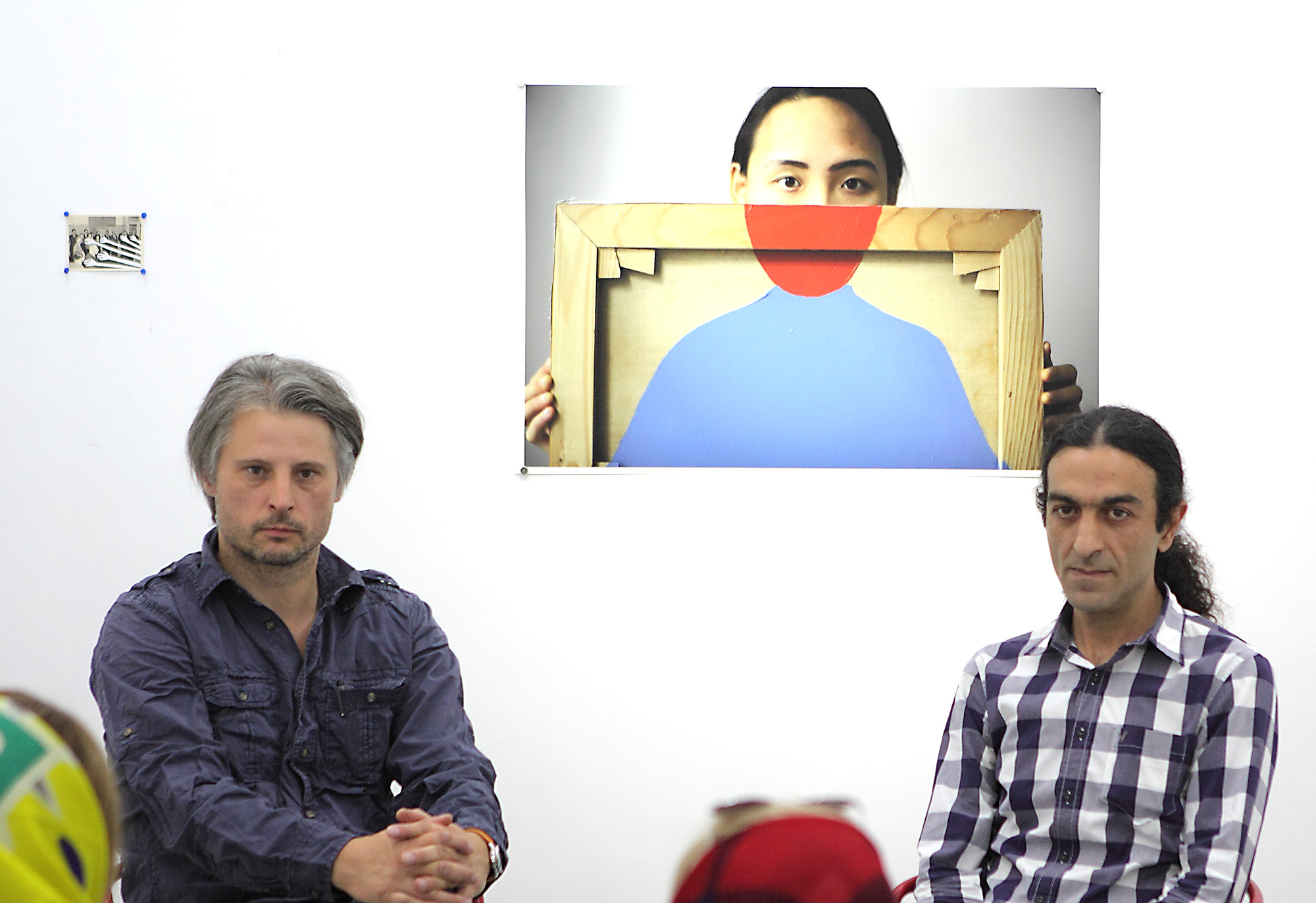 Sebastian Bieniek, artist talk during his „Bal Umagbe La“ exhibition opening at the Kandovan Building of the Pajman Foundation in Tehran/Iran. 13th of august 2018 (visitors)